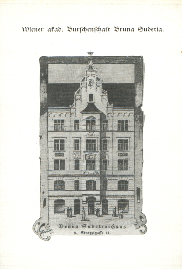 Postcard: Front view of the Bruna Sudetia-House